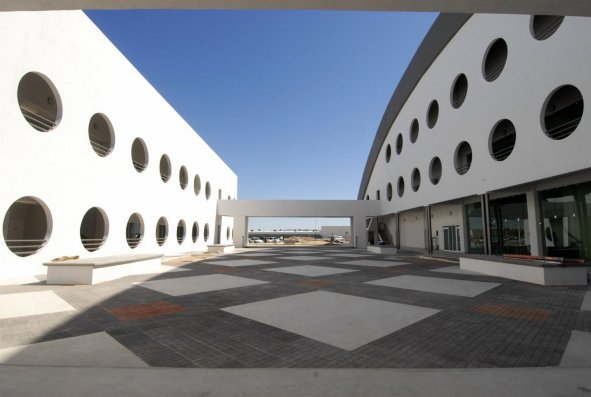 A photo of the presidential office in Acuna Coahuila, Mexico